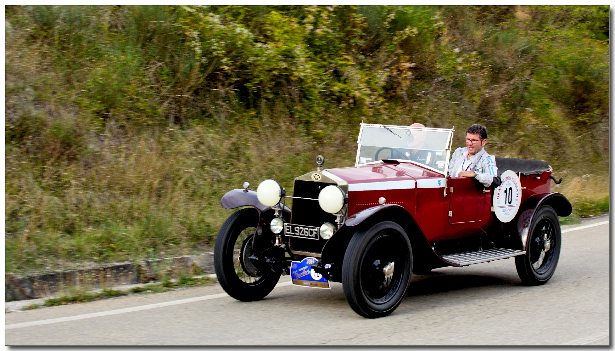 OM 665 SMM Superba 2.0 1926 at the Gran Premio Nuvolari, Colpani Maino